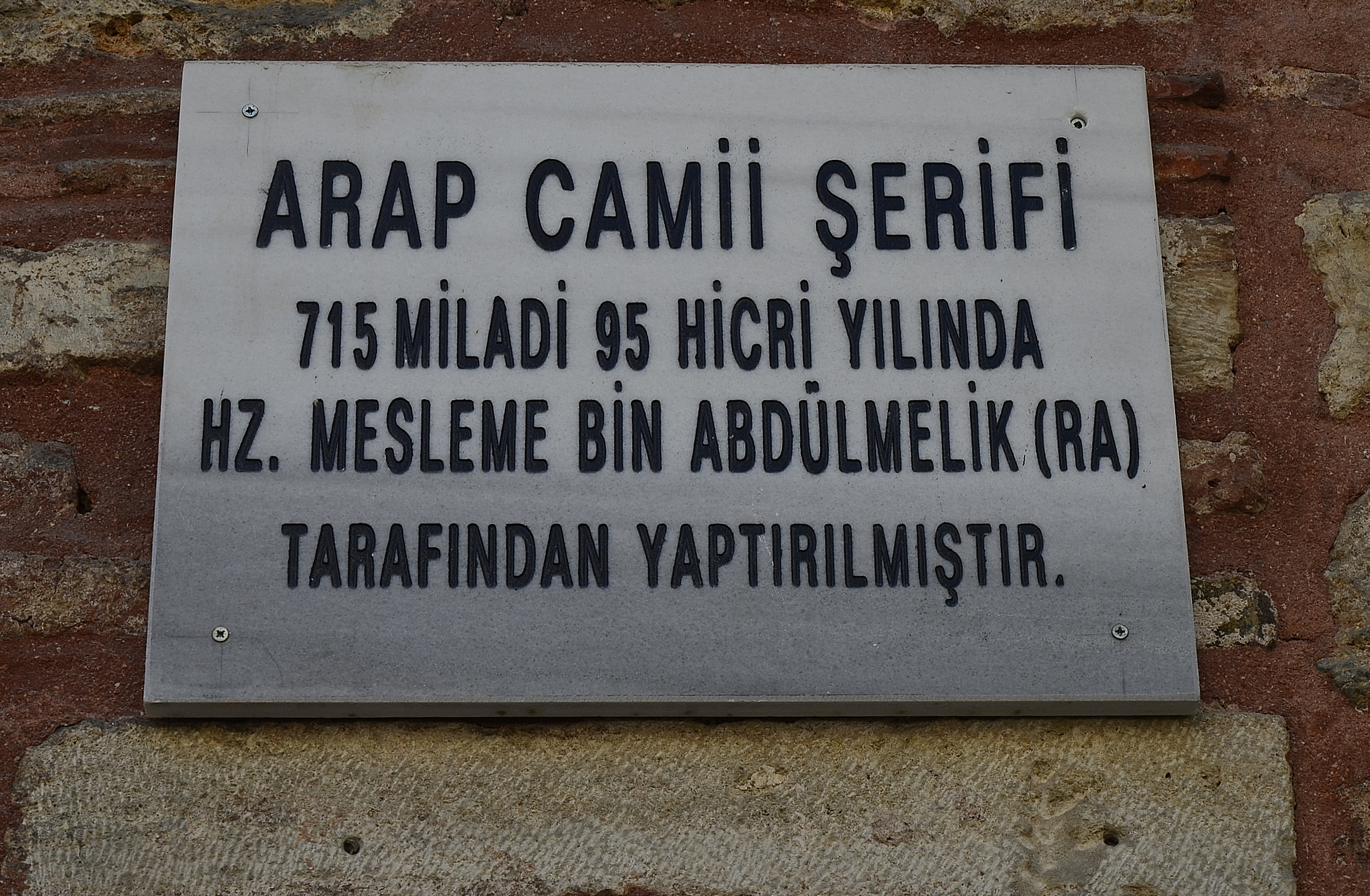 Arap Mosque in Karaköy, IstanbulTürkçe: Arap Camii Şerifi, 715 miladi 95 hicri yılında hz. mesleme Bin Abdülmelik (RA) tarafından yaptırılmıştır.